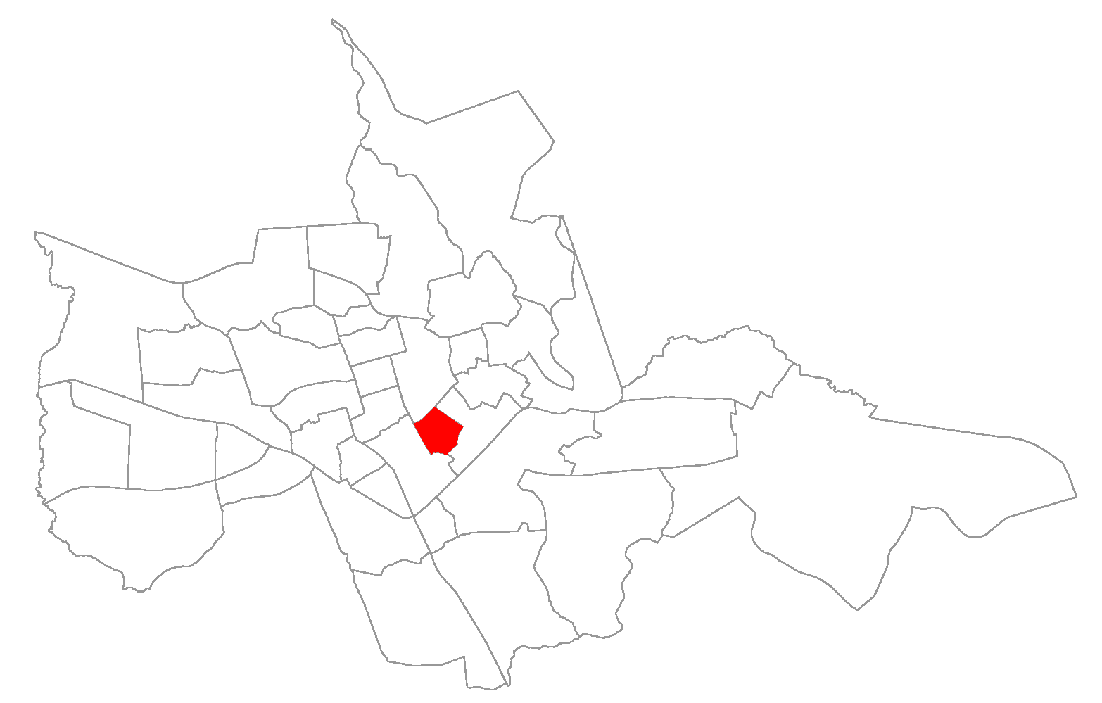 neighborhood/district of Santa Maria, Rio Grande do Sul